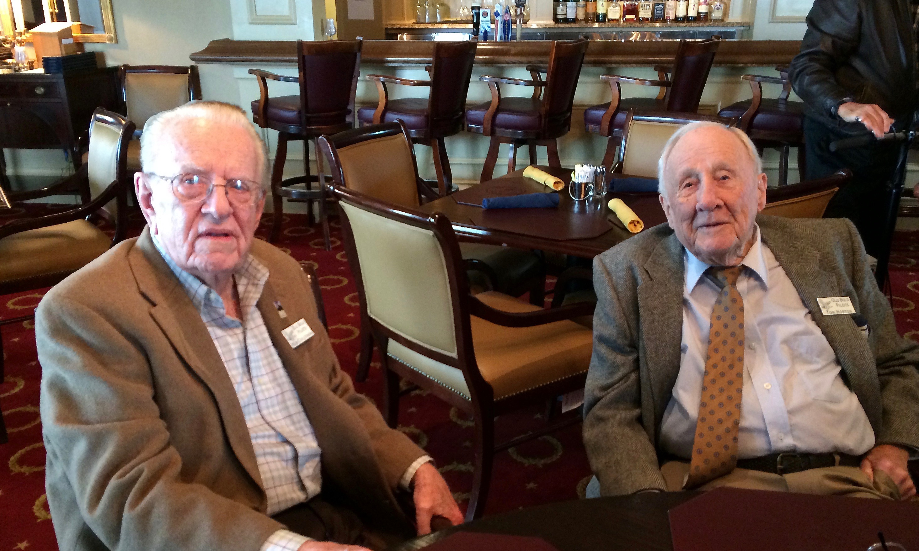 World War II aviators Ken Chilstrom (USAAF) and Tom Horton (RNZAF) enjoy lunch at the Army Navy Country Club in Arlington, Virginia in 2014.